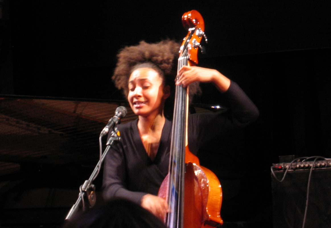 Esperanza Spalding performs at the Umbria Jazz Festival in Perugia, Italy on July 12, 2007. Photo: Original by Enrico Maioli andDerivative Work by Hugh Pickens